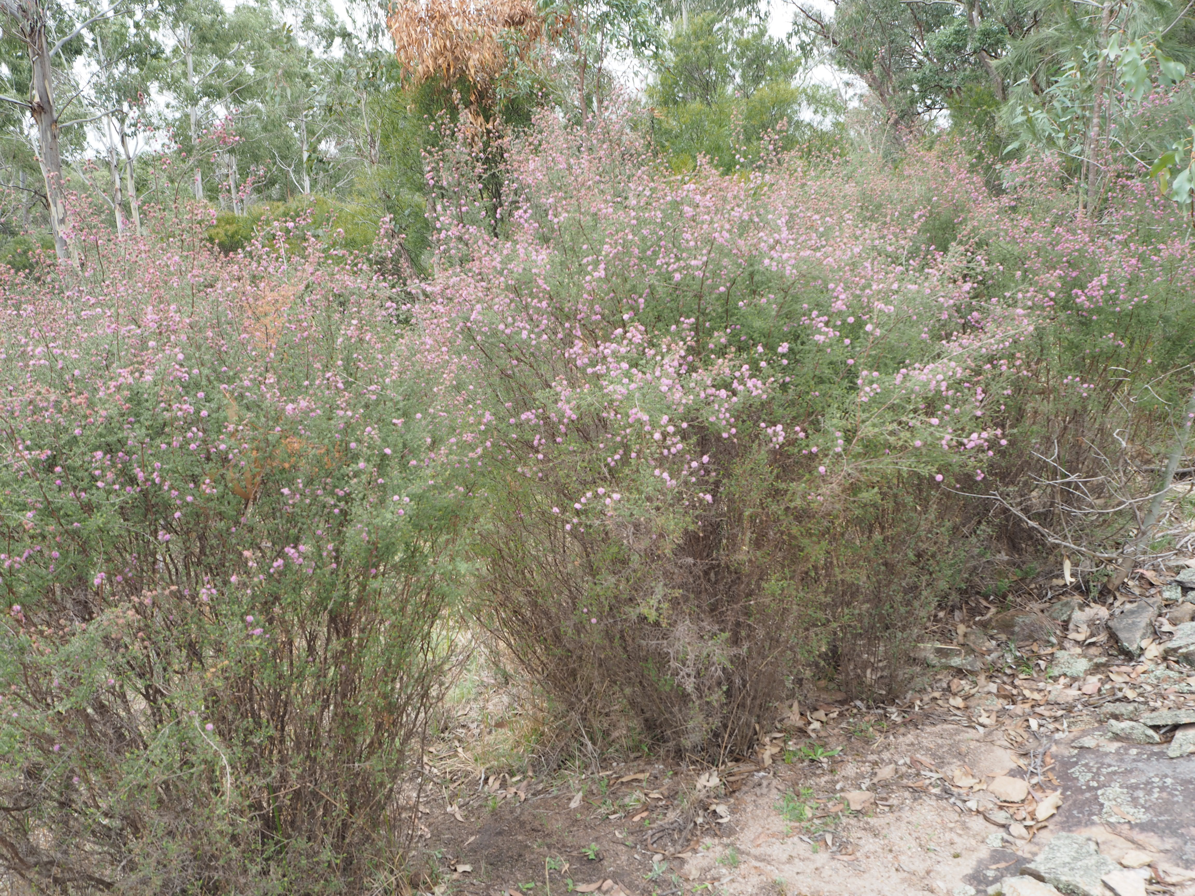 Kunzea obovata growing in the Bolivia Hill Nature Reserve south of Tenterfield